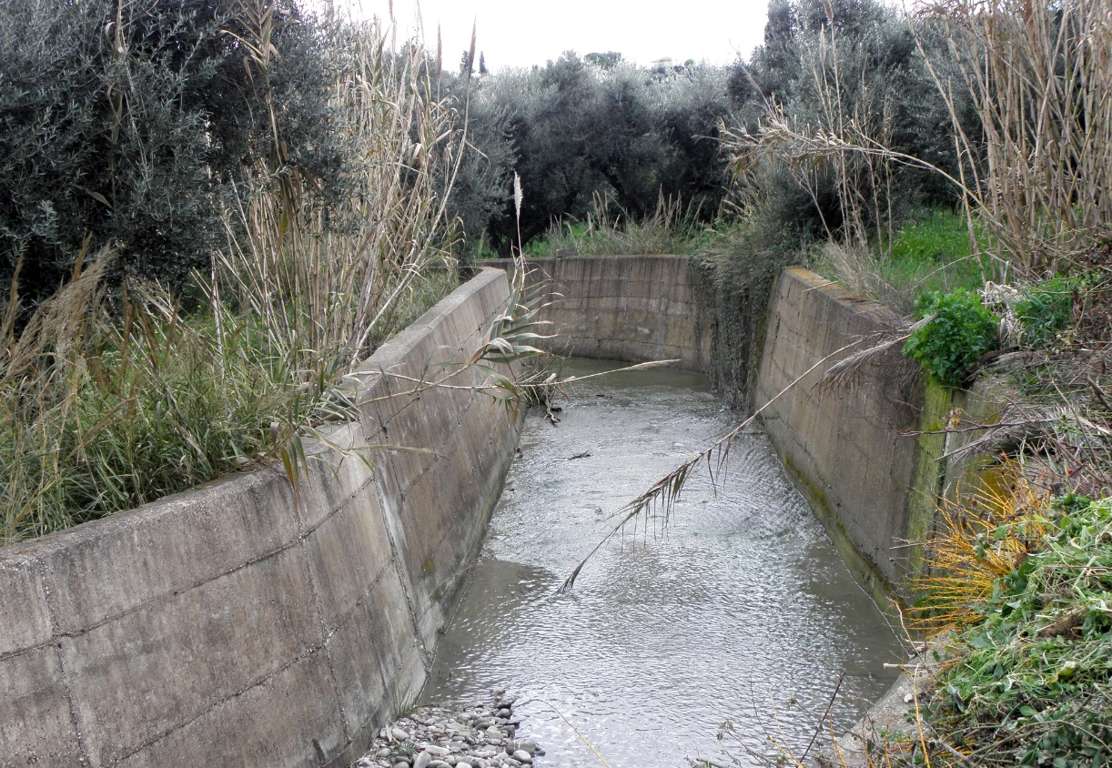 Ligias torrent in the outskirts of Mintilogli, Achaia, Greece.